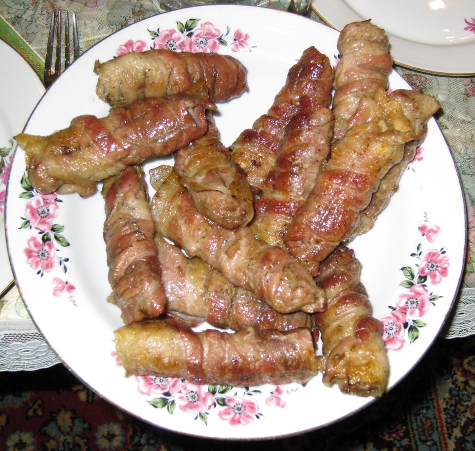 Meal, Cuisine from Serbia, Chevapcici